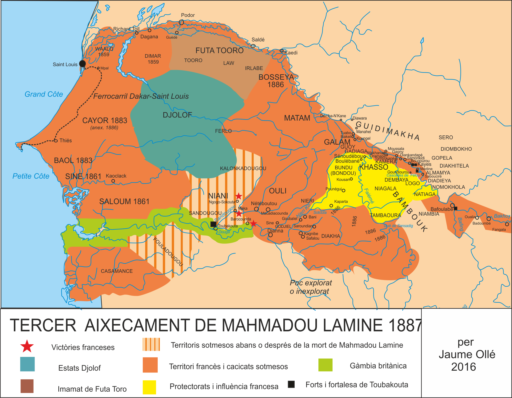 Mahmadou Lamine resistence to french colonialism until his death in 1887